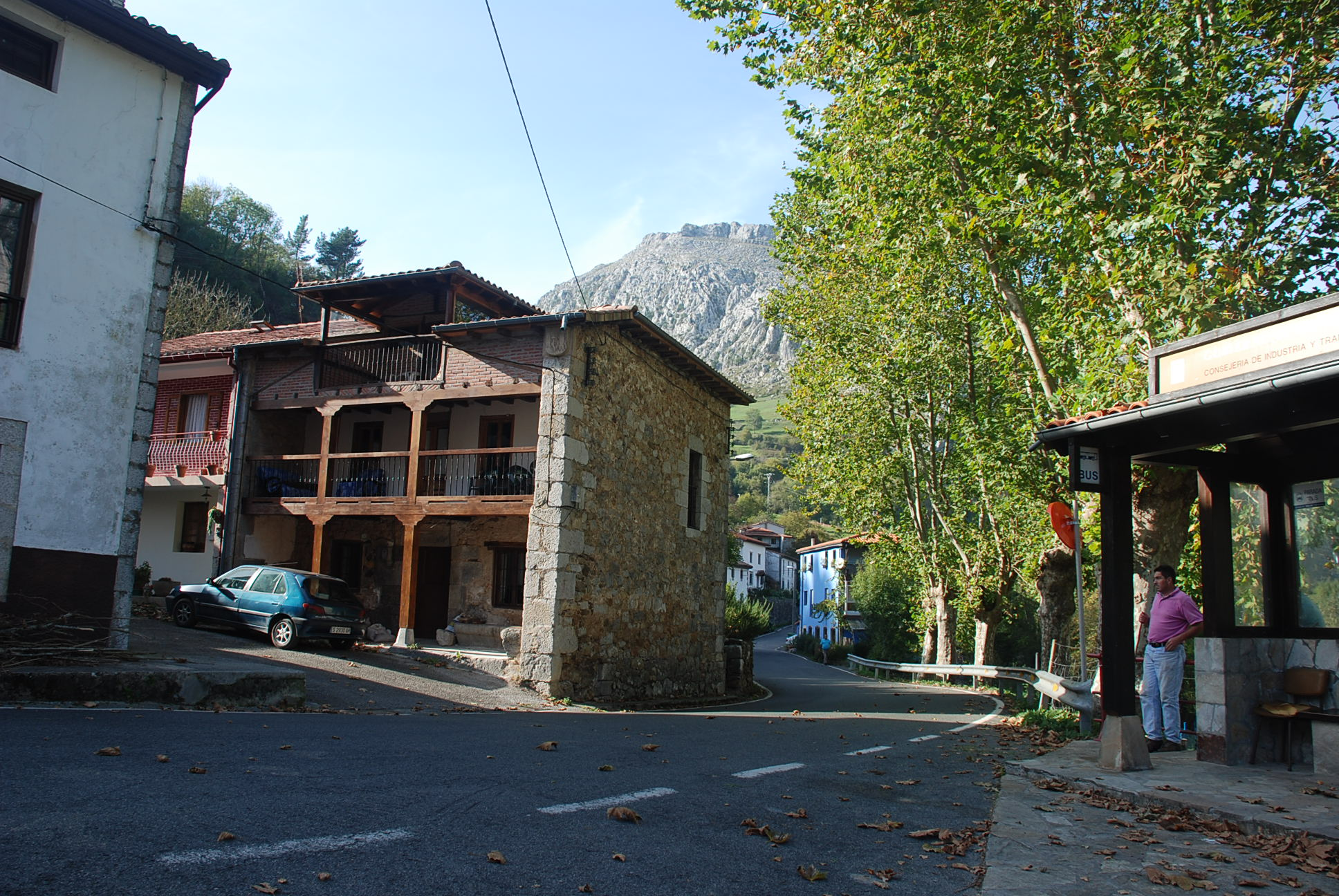 Mirones (Cantabria)